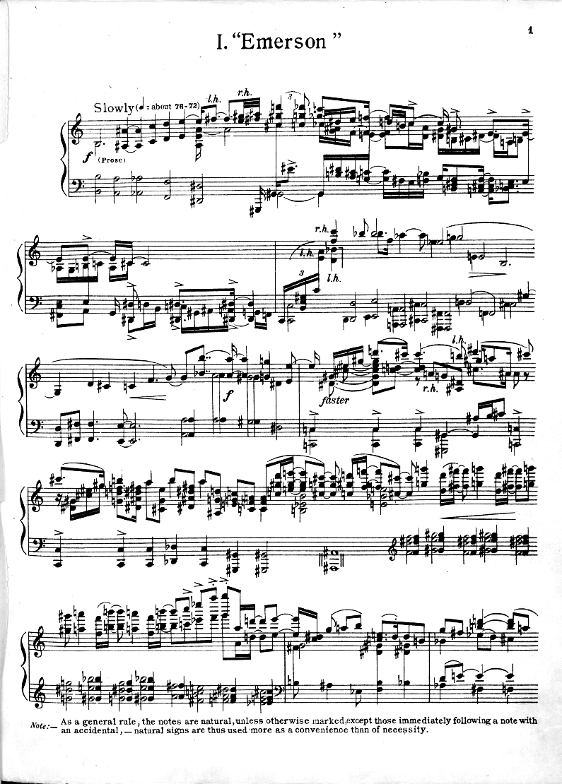 Ives Concord Sonata beginning First edition Publisher Info.: New York: Knickerbocker Press, n.d.(1921) Copyright: Public Domain